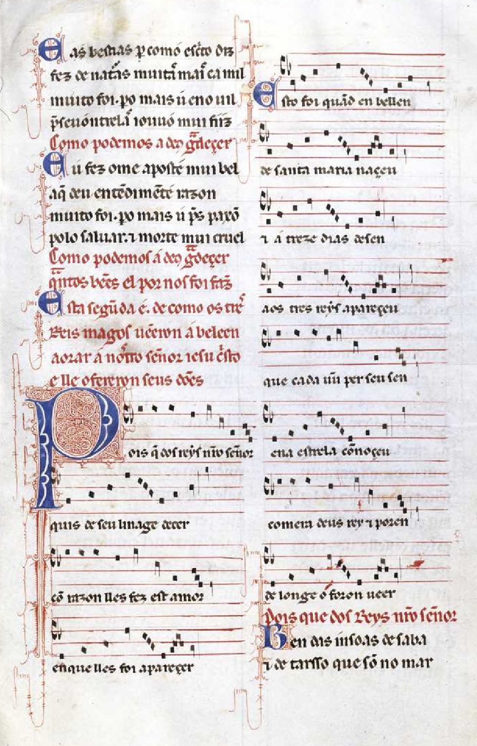 "Pois que dos reys Nostro Sennor" (Since Our Lord chose to descend from the lineage of kings), is an ancient Christmas Carol in Galician-Portuguese about the Adoration of the Magi from the Cantigas de Santa Maria (number 424). Facsimile of the Toledo codex, in the National Library of Spain.